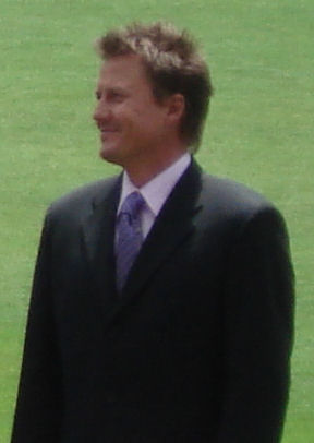 James Brayshaw at cricket in Hobart